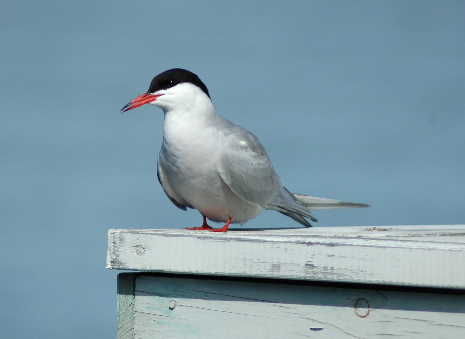 Common Tern (Sterna hirundo) Photo by Harald Weedon-Fekjaer Place; Nesodden, Norway (year 2000)